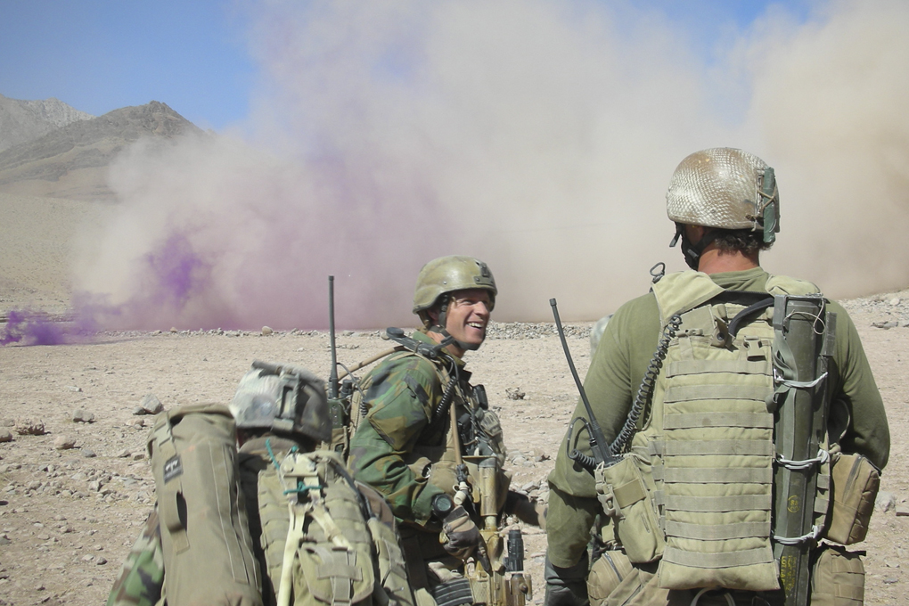 Ridder Militaire Willemsorde Gijs Tuinman in Afghanistan